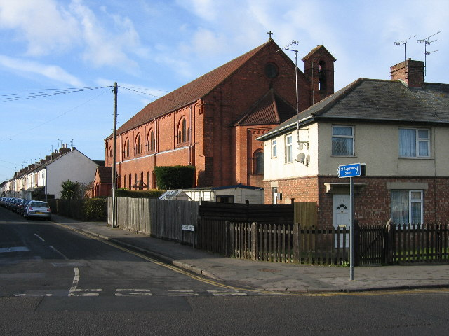 St Augustine of Canterbury parish church, Summers Street, Swindon, Wiltshire, seen from the east